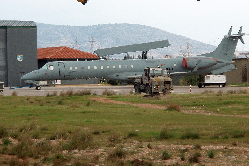 Embraer R-99A (EMB-145H AEW&C) with Erieye radar, no 145-374 (SX-BKO), during delivery tests at Elefsis AB, Greece.